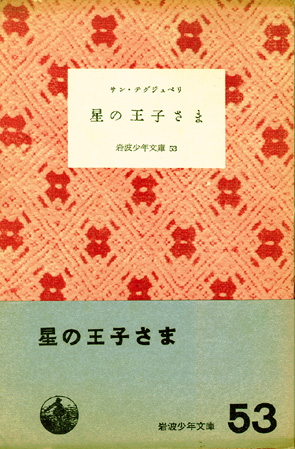 A cover of the book.